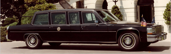 1983 Cadillac Limousine used by President Ronald Reagan